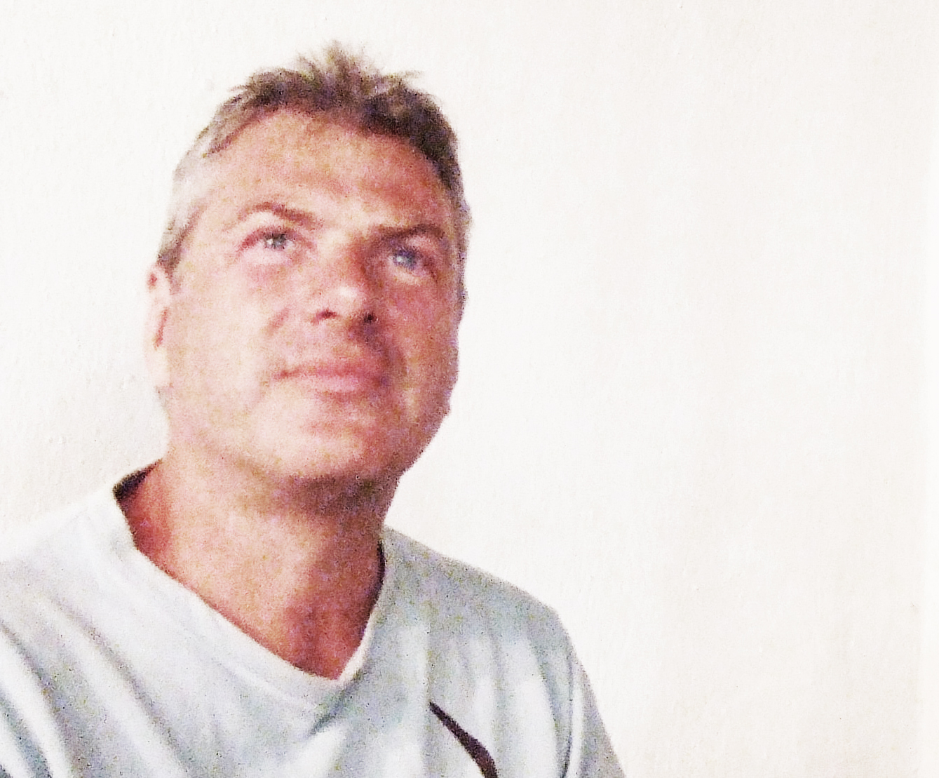 pete lawrence, taken in september 2008